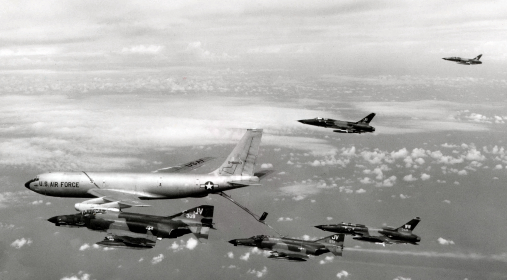 A U.S. Air Force SAM Hunter killer group of the 388th Tactical Fighter Wing takes fuel on the way to North Vietnam for a strike during "Operation Linebacker" in October 1972. Visible are the Boeing KC-135A Stratotanker, two McDonnell Douglas F-4E Phantom II fighters from the 34th Tactical Fighter Squadron (tail code "JV"); a Republic F-105G Thunderchief "Wild Weasel" aircraft from the 17th TFS ("JB"); and two F-105Gs from the 561st TFS ("WW").